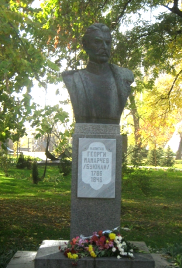 Georgi Mamarchev Monument